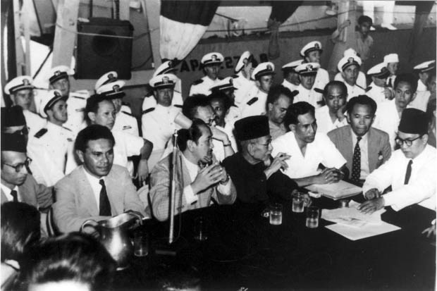 Indonesian Delegation in the Renville Agreement.